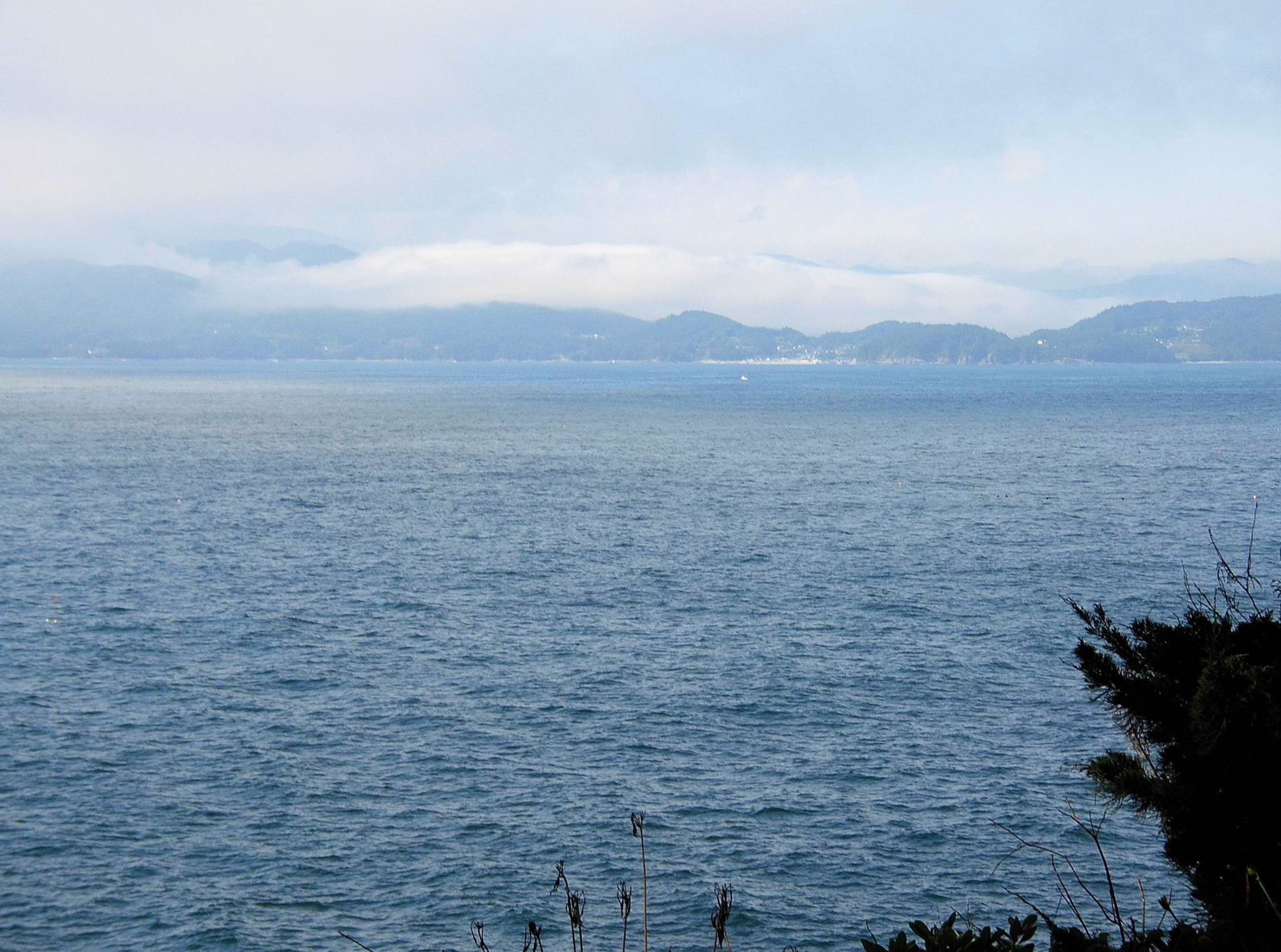 Yamase(deep-fog) of Goisi-kaigan:Oofunato,Iwate-prefecture,Japan.